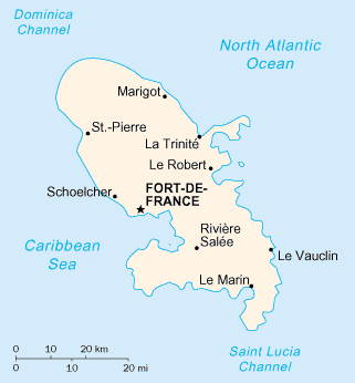 Map of Martinique showing towns.